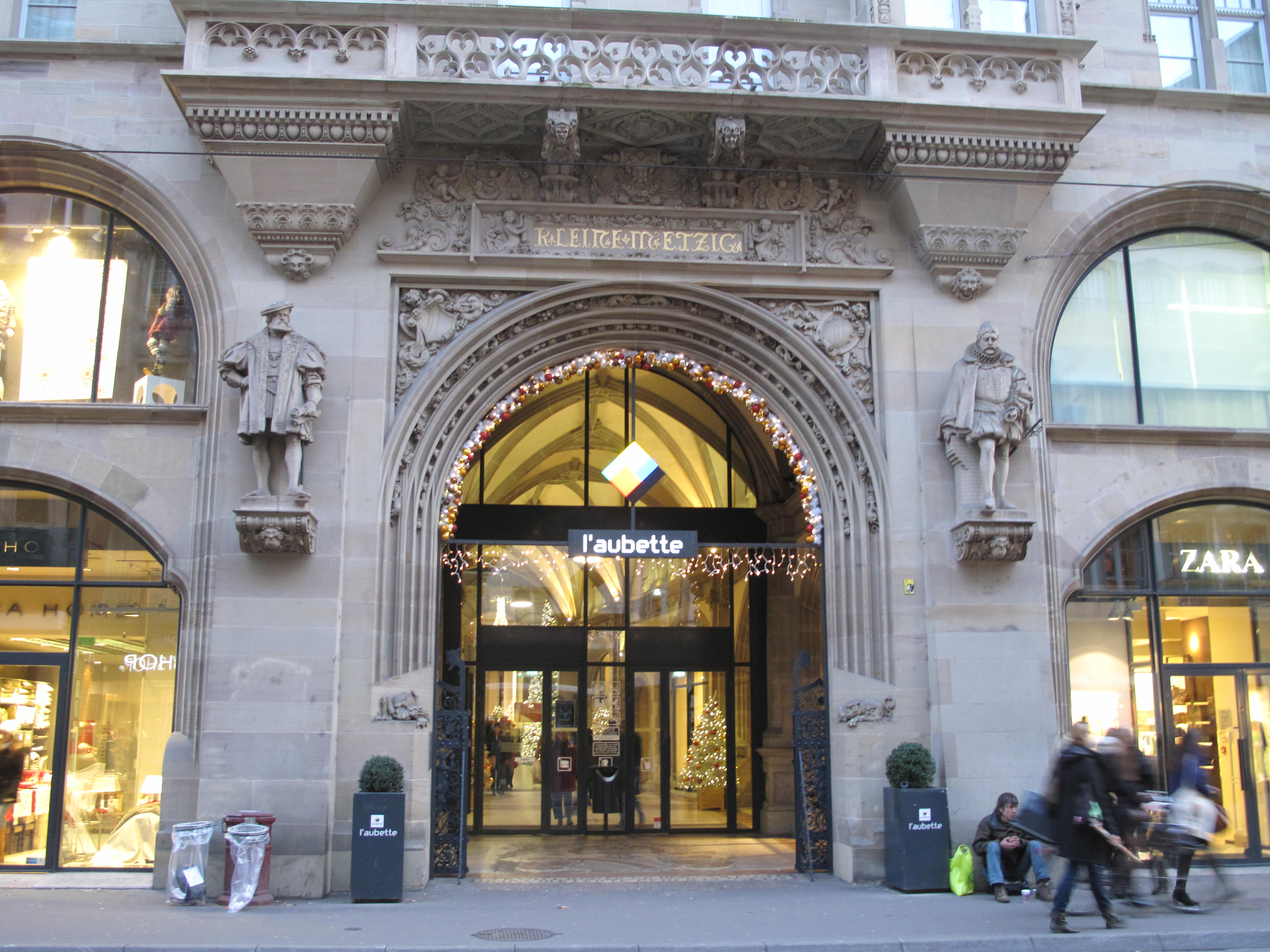 Entrance gate of the commercial mall of Aubette in Strasbourg (Bas-Rhin, France).